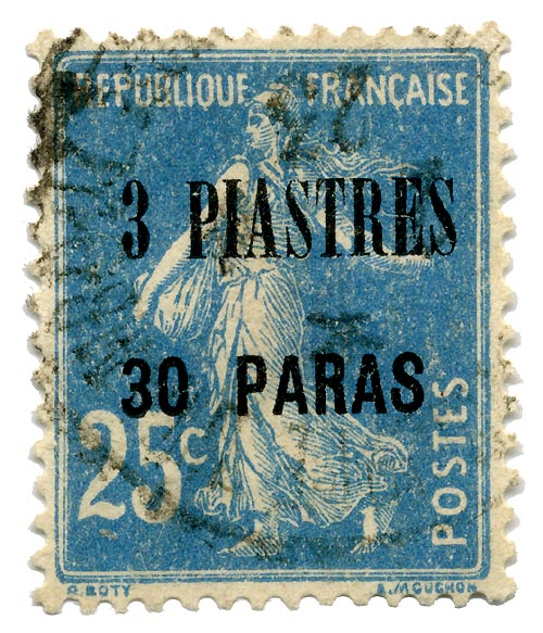 Scan of French post offices in the Turkish Empire 3-piastre 30-para stamp of 1923